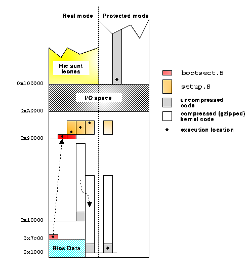 Source: from Loadable Kernel Modules in Linux. See this for a textual explanation.